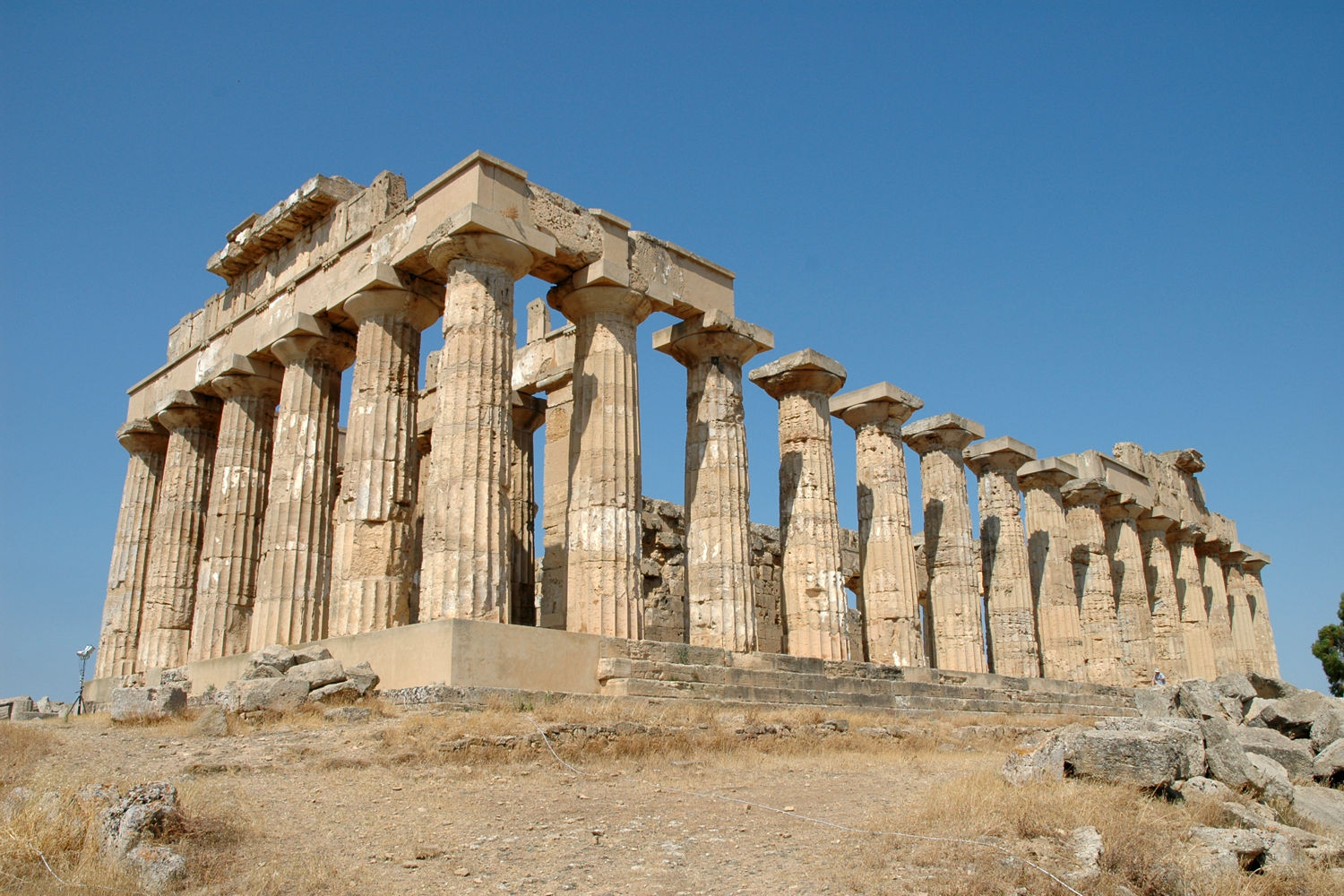 The ancient Greek Temple of Hera in Selinunte, also knowns as "temple E", at Castelvetrano, in Sicily, Italy.